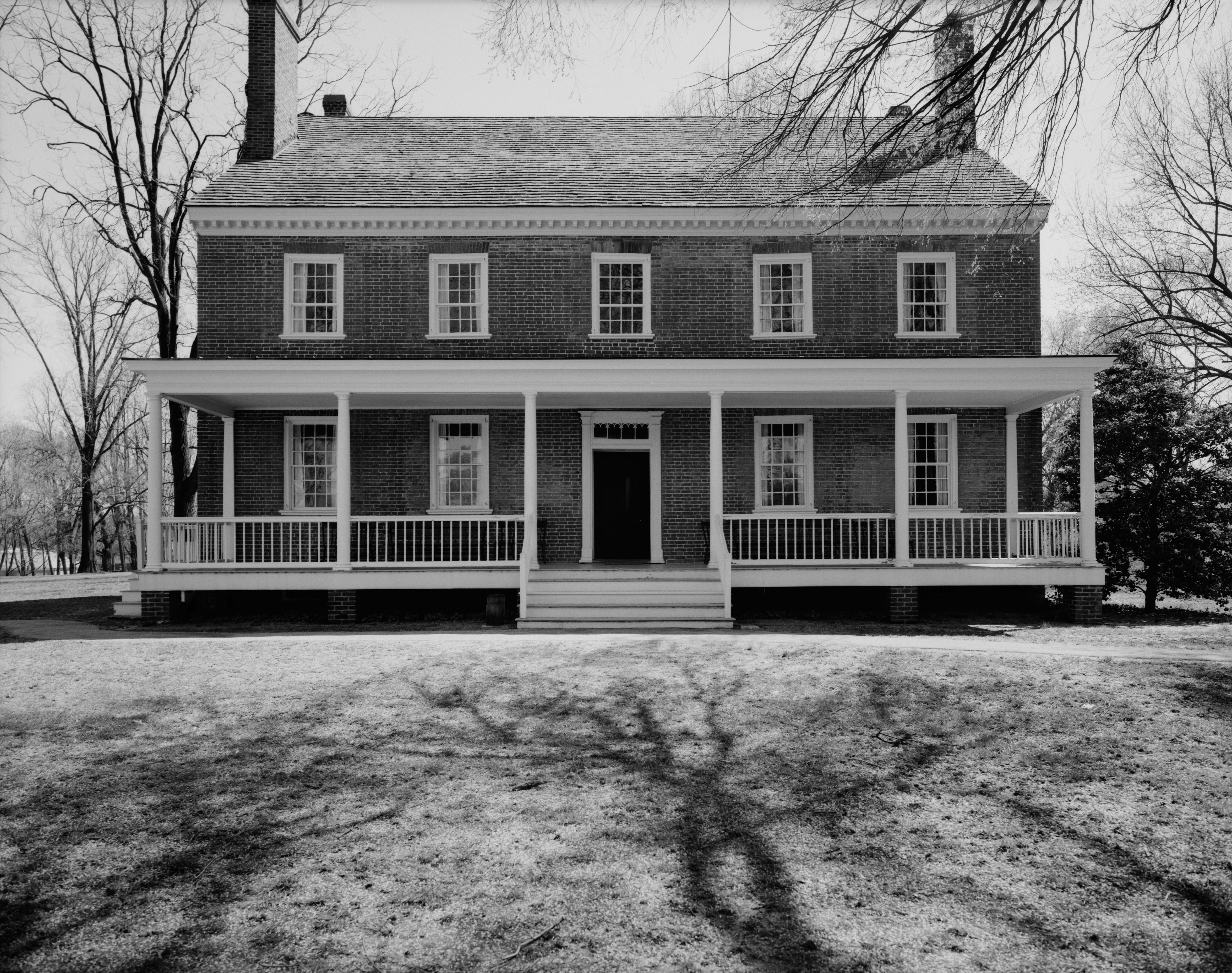 Front of Locust Grove, located at 561 Blankenbaker Lane in Louisville, Kentucky, United States. Built in 1790, it is a National Historic Landmark.